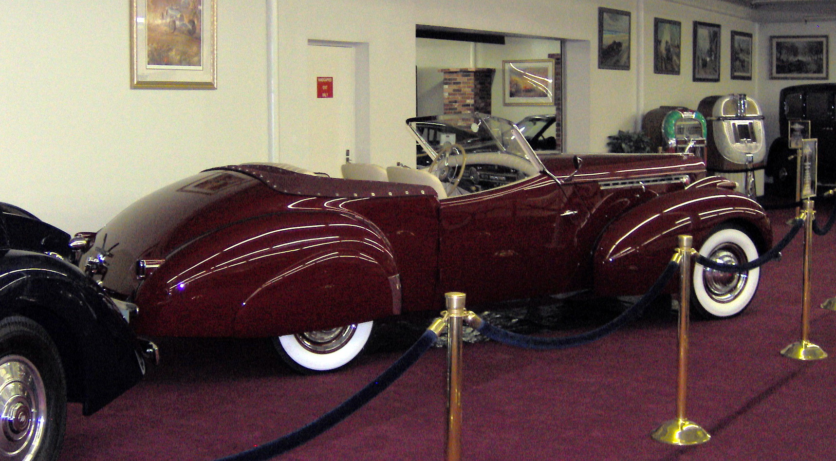 1940 Packard 120 Darrin Convertible Victoria